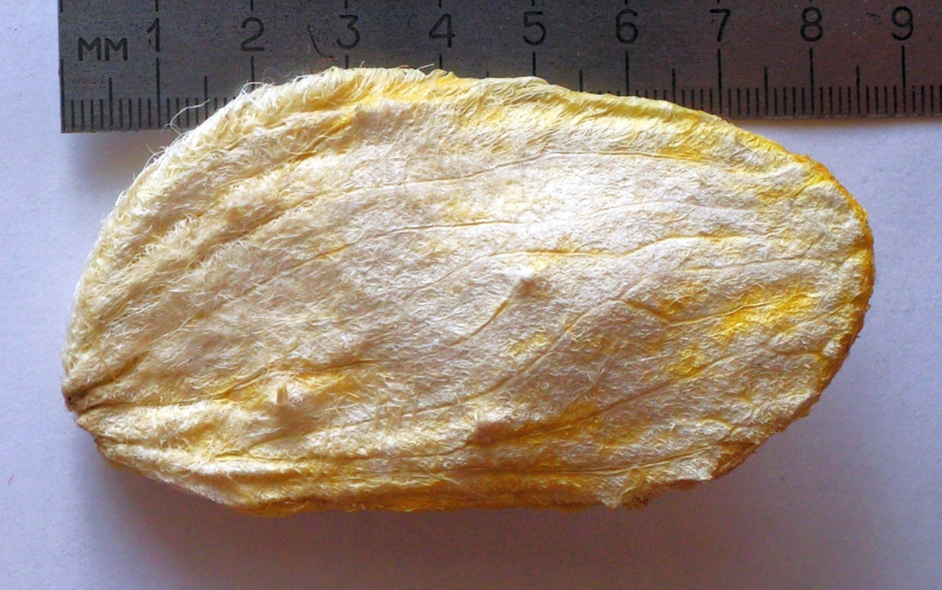 The kernel (pyrena) of a drupe of Mangifera indica.